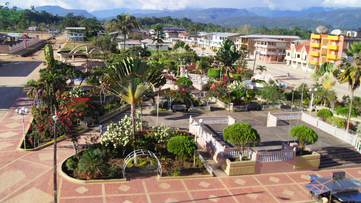 Parque central de El Pangui